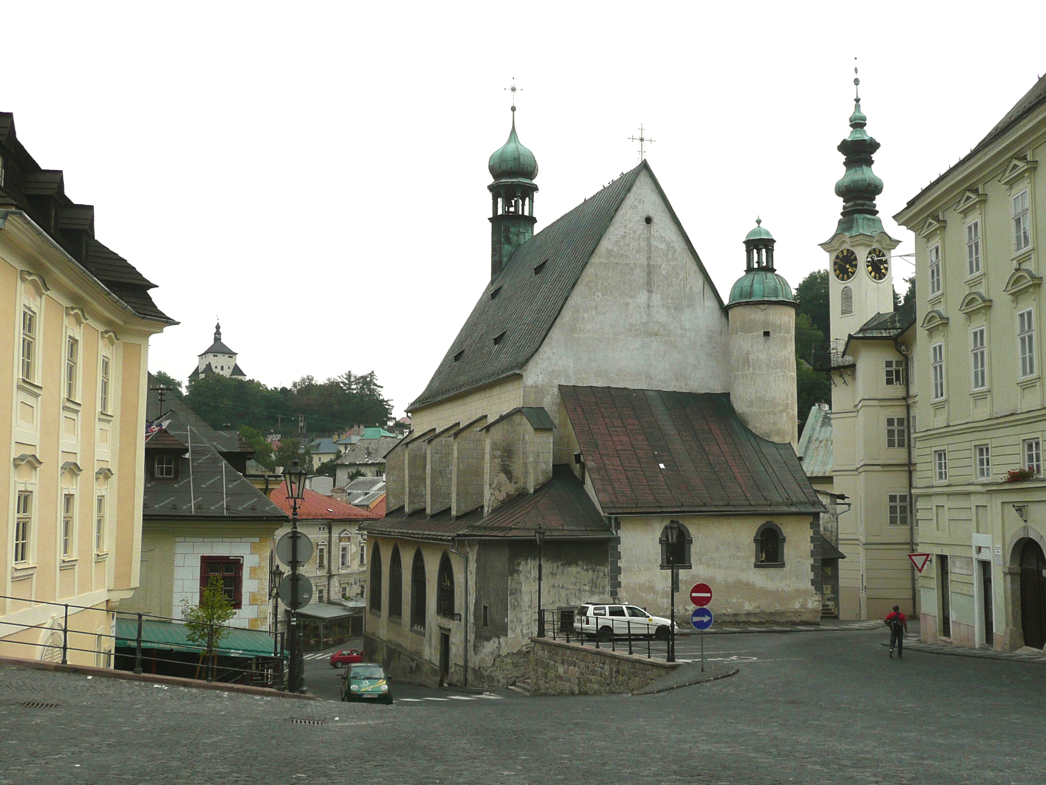 Main place of Banská Štiavnica